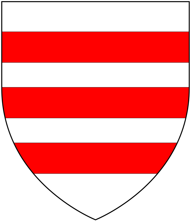 Arms of Wollocombe of Wollocombe (modern: Woolacombe) in the parish of Mortehoe and of Combe in the parish of Roborough (Torridge), both in Devon: Argent, three bars gules (Vivian, Lt.Col. J.L., (Ed.) The Visitation of the County of Devon: Comprising the Heralds' Visitations of 1531, 1564 & 1620, Exeter, 1895, p.795; Pole, Sir William (d.1635), Collections Towards a Description of the County of Devon, Sir John-William de la Pole (ed.), London, 1791, p.509)